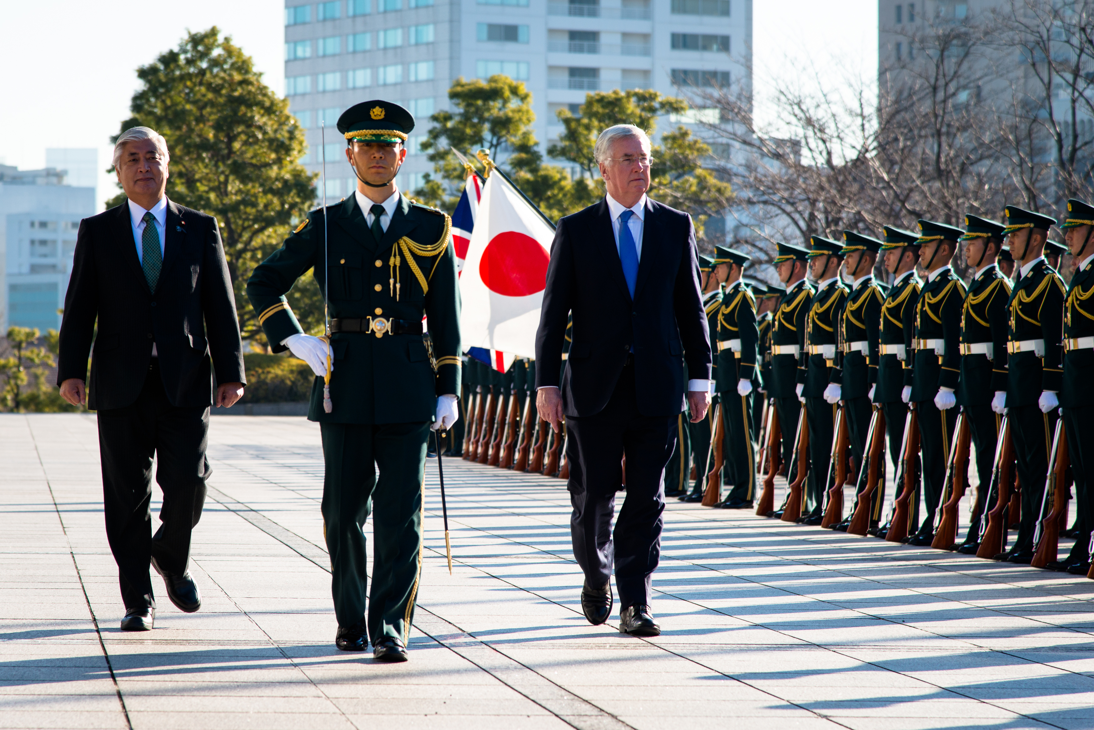 Foreign Secretary Philip Hammond and Defence Secretary Michael Fallon visit to Japan to deepen cooperation on defence and security (c)British Embassy Tokyo/Michael Feather